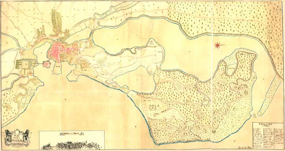 Citymap of Schwerin